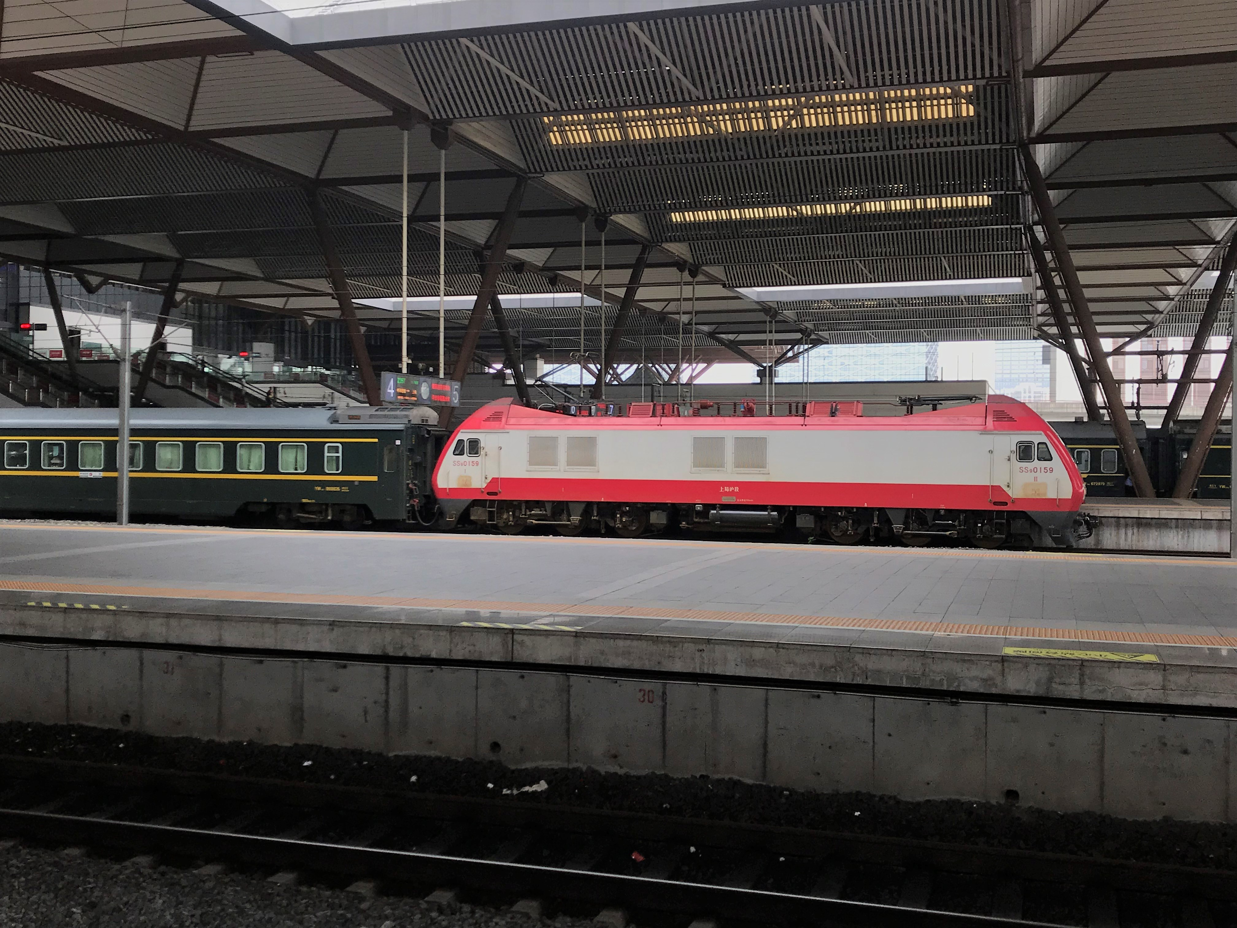 It's not easy to catch SS9 any more